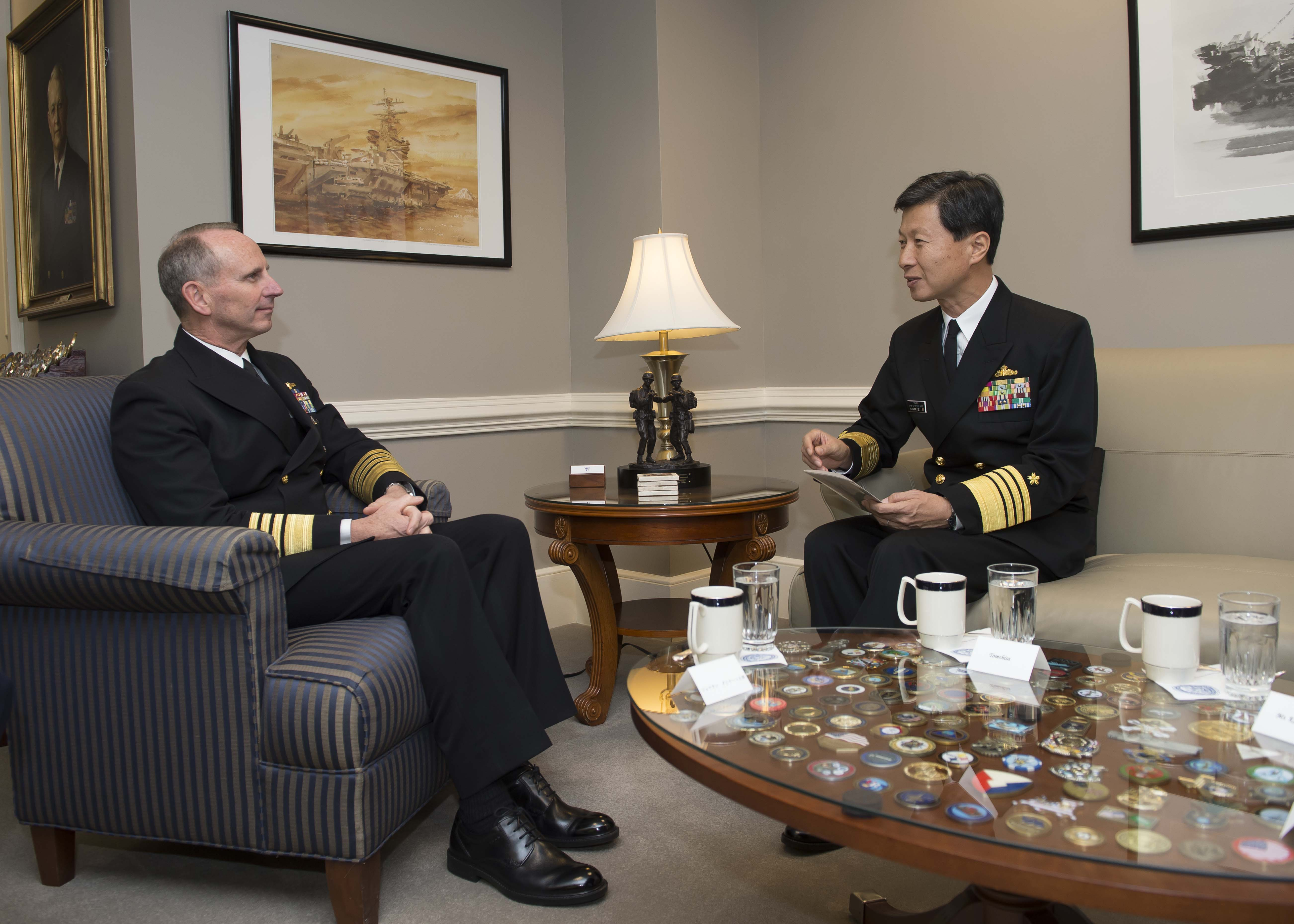 WASHINGTON (Nov. 19, 2014) Adm. Tomohisa Takei, chief of staff of the Japan Maritime Self-Defense Force, meets with Chief of Naval Operations (CNO) Adm. Jonathan Greenert during his first official visit to the Pentagon as the newly appointed head of the Japan Maritime Self-Defense Force. Takei assumed command Oct. 14, 2014 from Adm. Katsutoshi Kawano, who assumed command of all Japan Self-Defense Forces as their new joint staff, chief of staff. (U.S. Navy photo by Chief Mass Communication Specialist Peter D. Lawlor/Released) 141119-N-WL435-013 Join the conversation: navylive.dodlive.mil